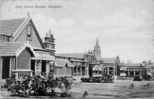 The Lady Curzon Hospital, Bangalore, India. This photograph is dated en:1916, and therefore by the Indian Copyright Law, is public domain. Image